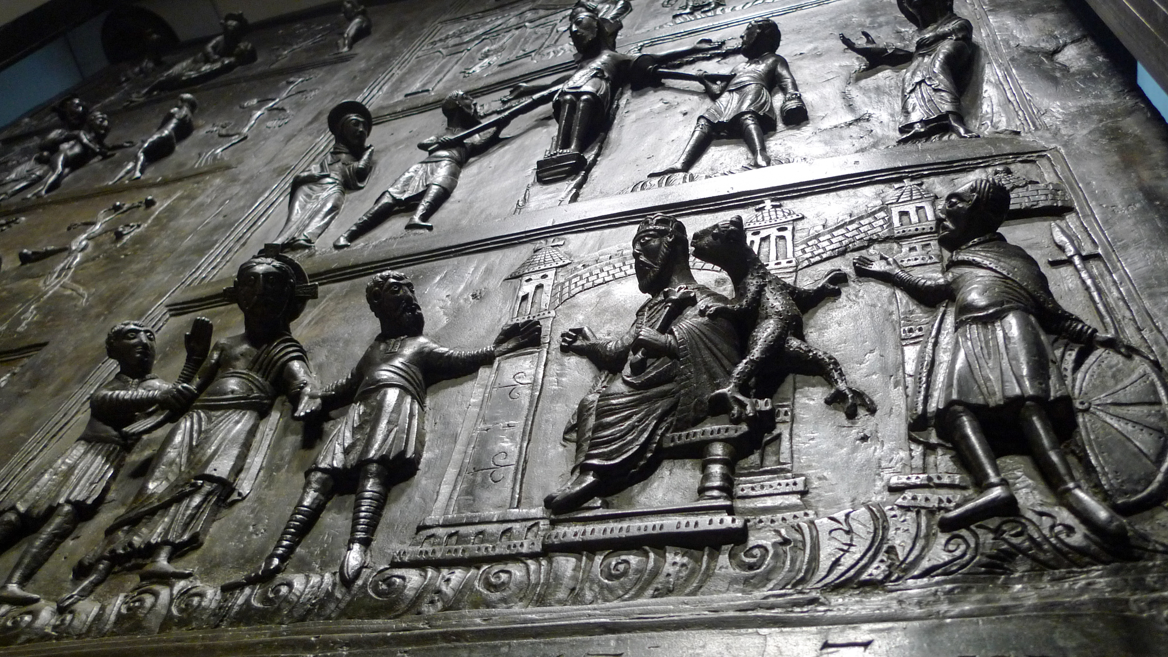 Dom Hildesheim, Bernwardstür, Detail